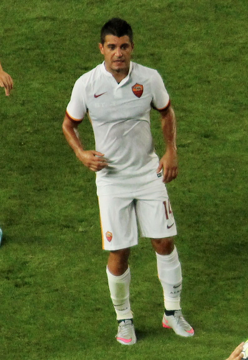 Iago Falque playing for AS Roma in pre-season friendly against FC Barcelona on 5 August 2015